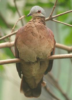 Rufous-breasted Quail-dove